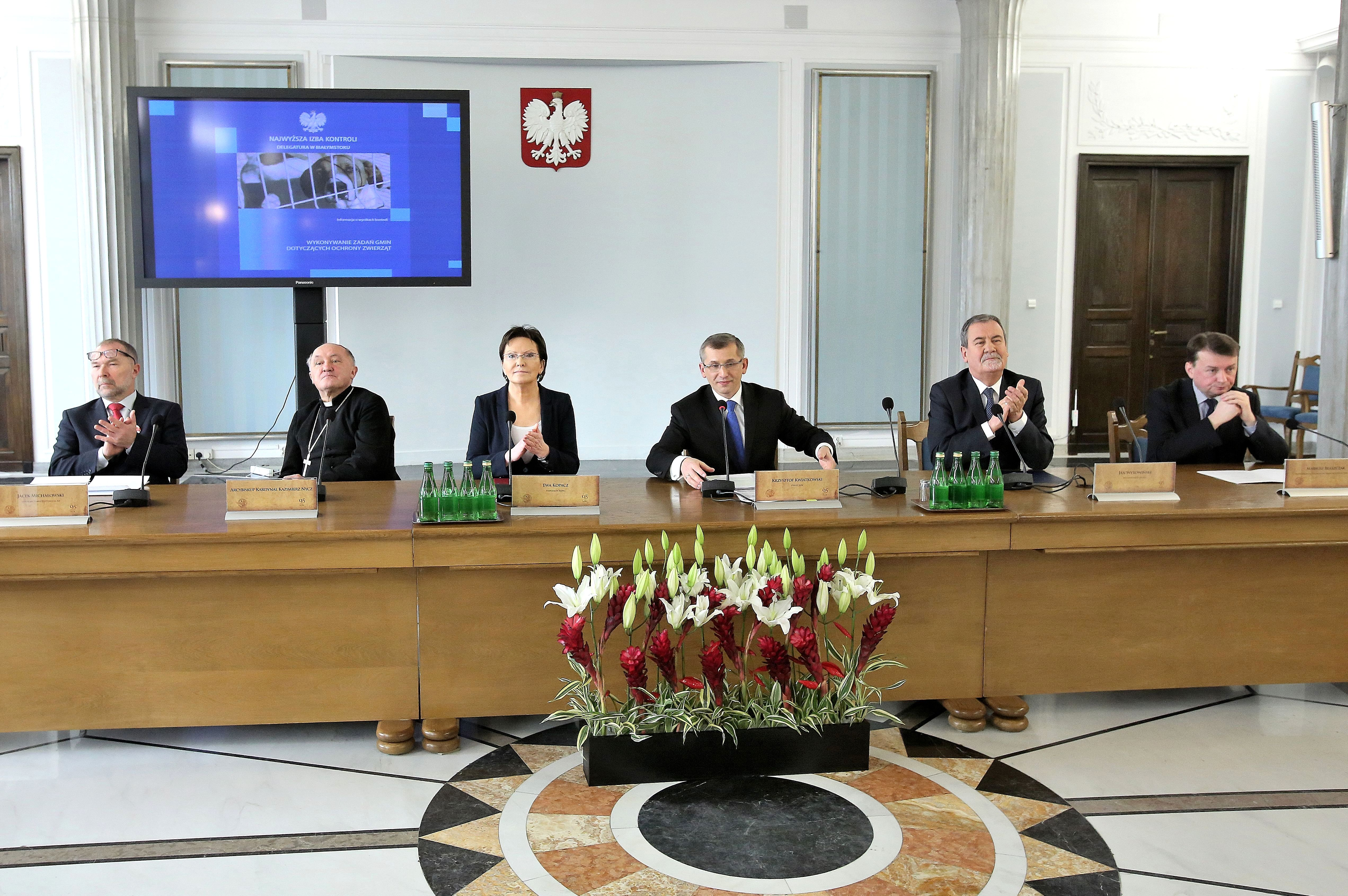 Sitting of the College of the Supreme Audit Office to commemorate 95th anniversary of establishing the SAO in the Column Hall in the Sejm